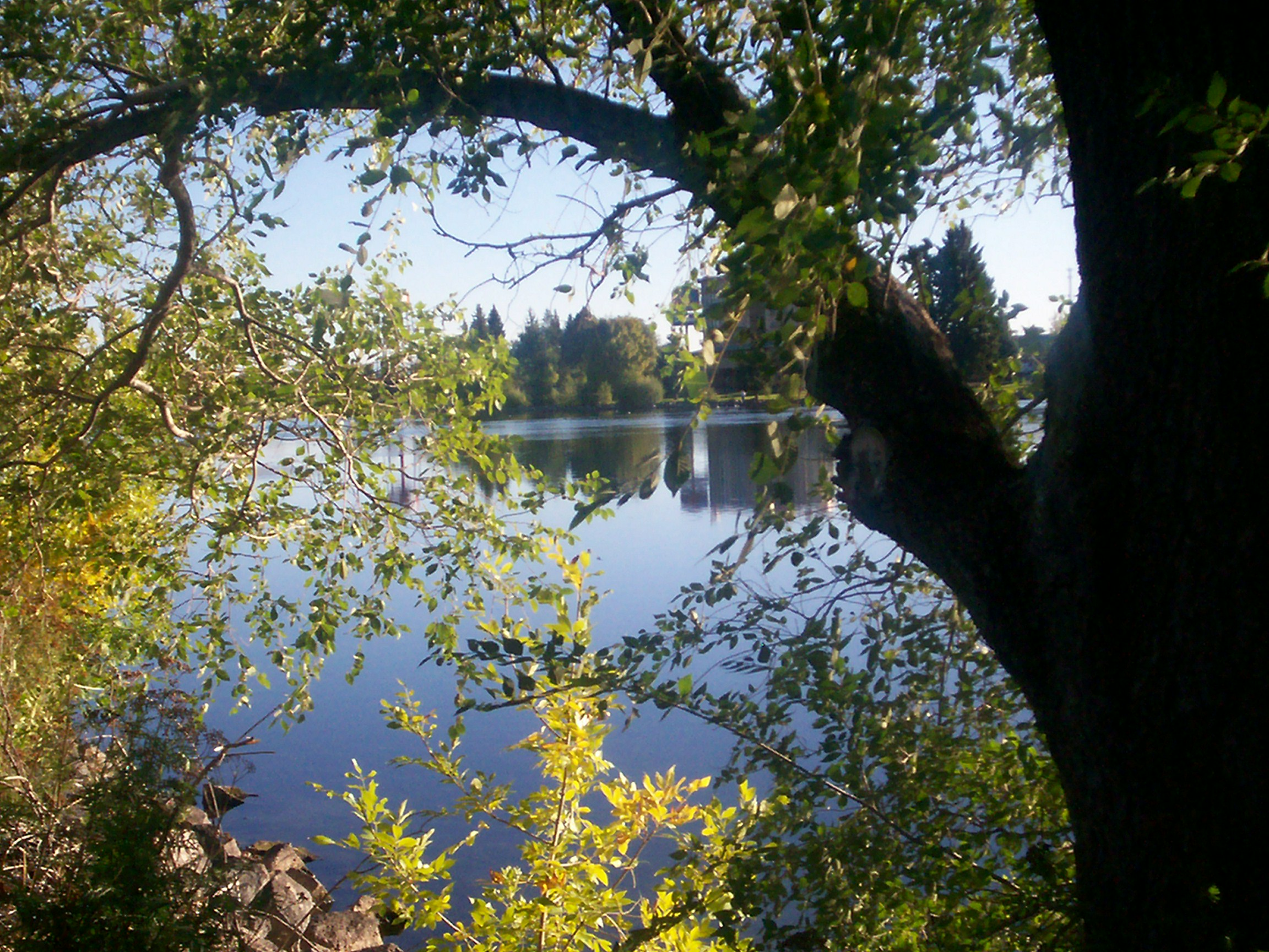 The Snake River at Idaho Falls by David Jolley 2005.